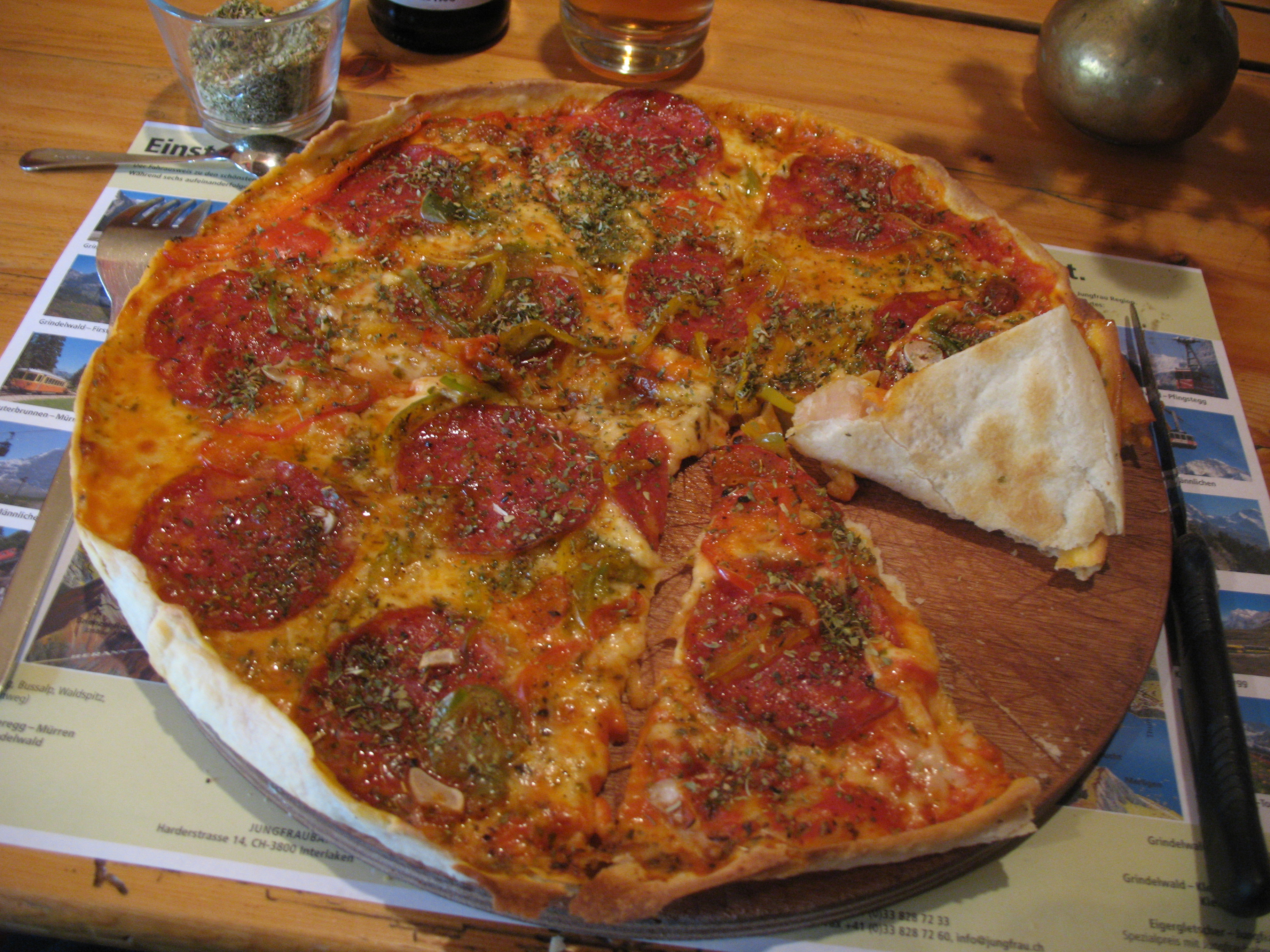 Pizza, Uncle Tom's Hut, Grindelwald, Switzerland